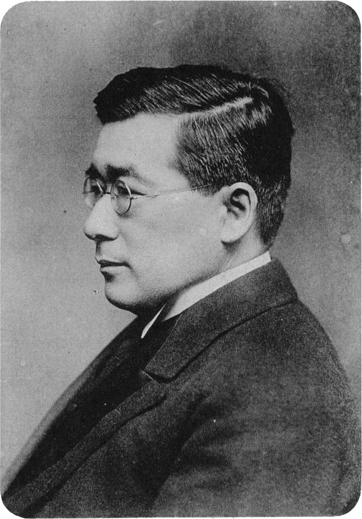 Rikizō Nakashima.